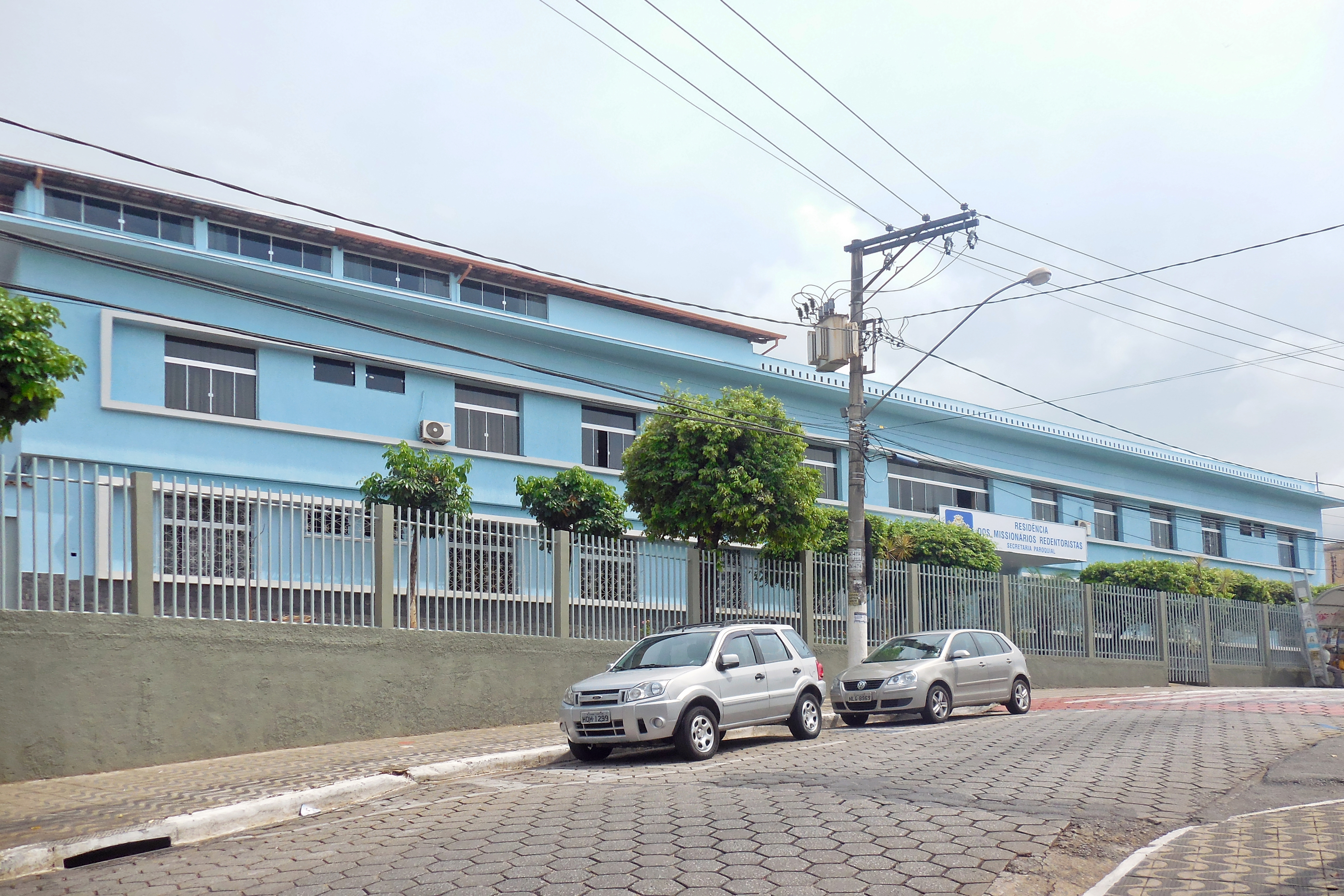 House of the Congregation of the Most Holy Redeemer in Coronel Fabriciano, Minas Gerais, Brazil.